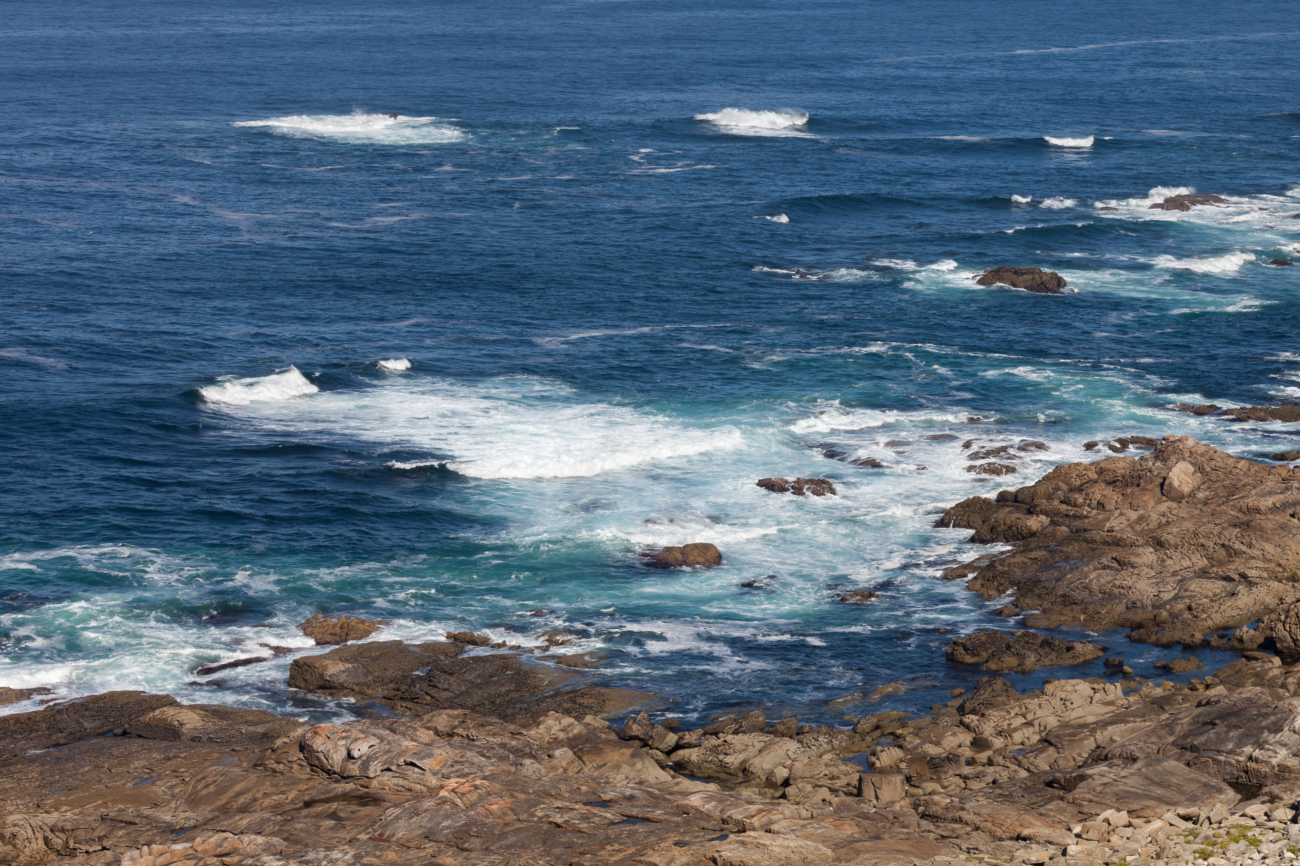 Rocks and sea of Baredo, Baiona. View from the Silleiro lighthouse, Galicia (Spain)